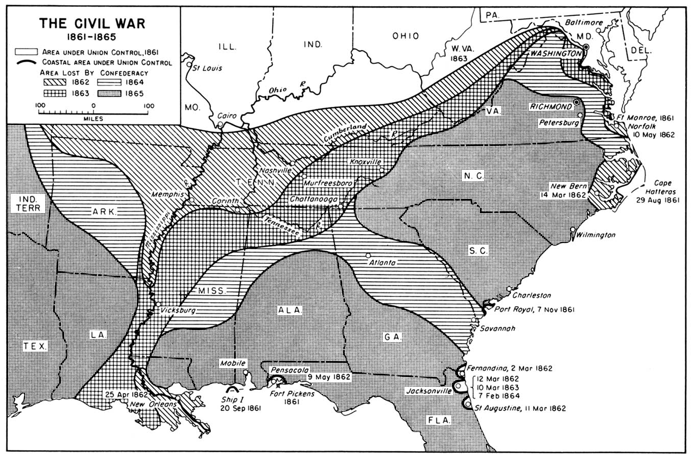 This map describes the Confederate losses each year into the war.